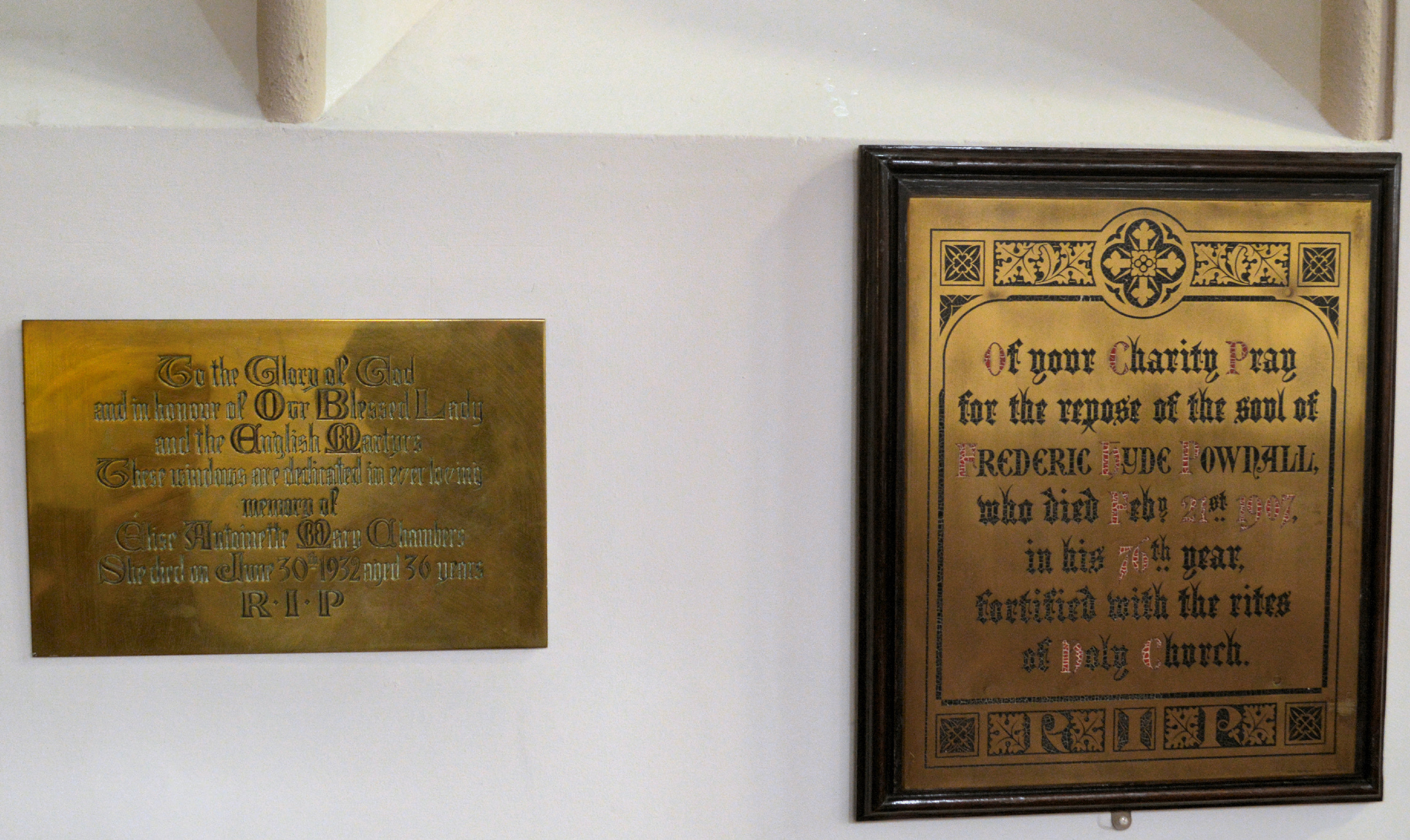 Twickenham, Church of St James, English Martyrs and Frederick Pownall memorials